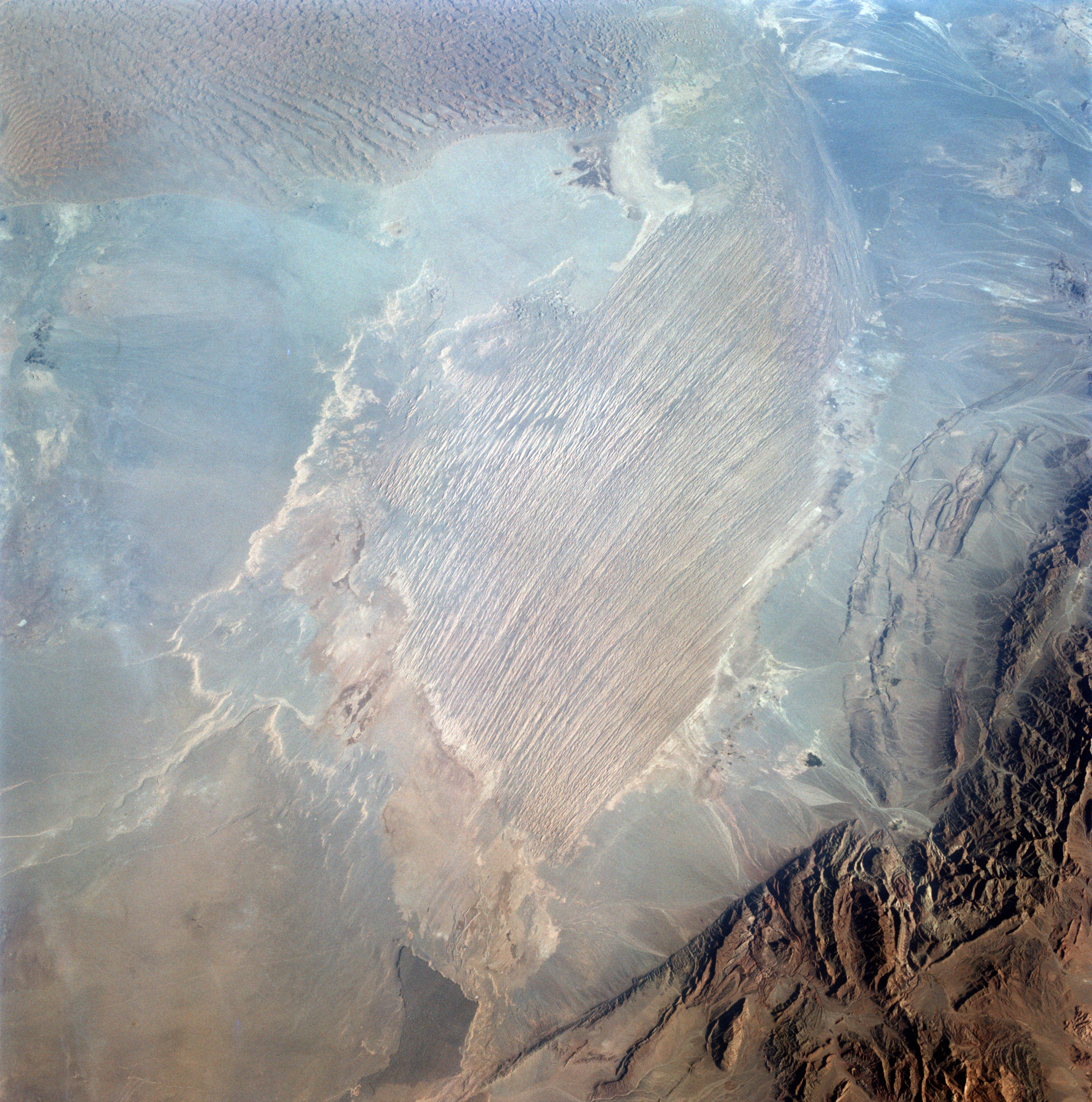 Iran is a large country with several desert regions. In the Dasht-E-Lut (Lut Desert) (30.5N, 58.5E) an area known as Namak-Zar, about 100 miles east of the city of Kerman, is at the center of this photograph. Some of the world's most prominent Yardangs (very long, parallel ridges and depressions) have been wind eroded in these desert dry lake bed sediments. At the left of the photo is a large field of sand dunes at right angles to the wind.